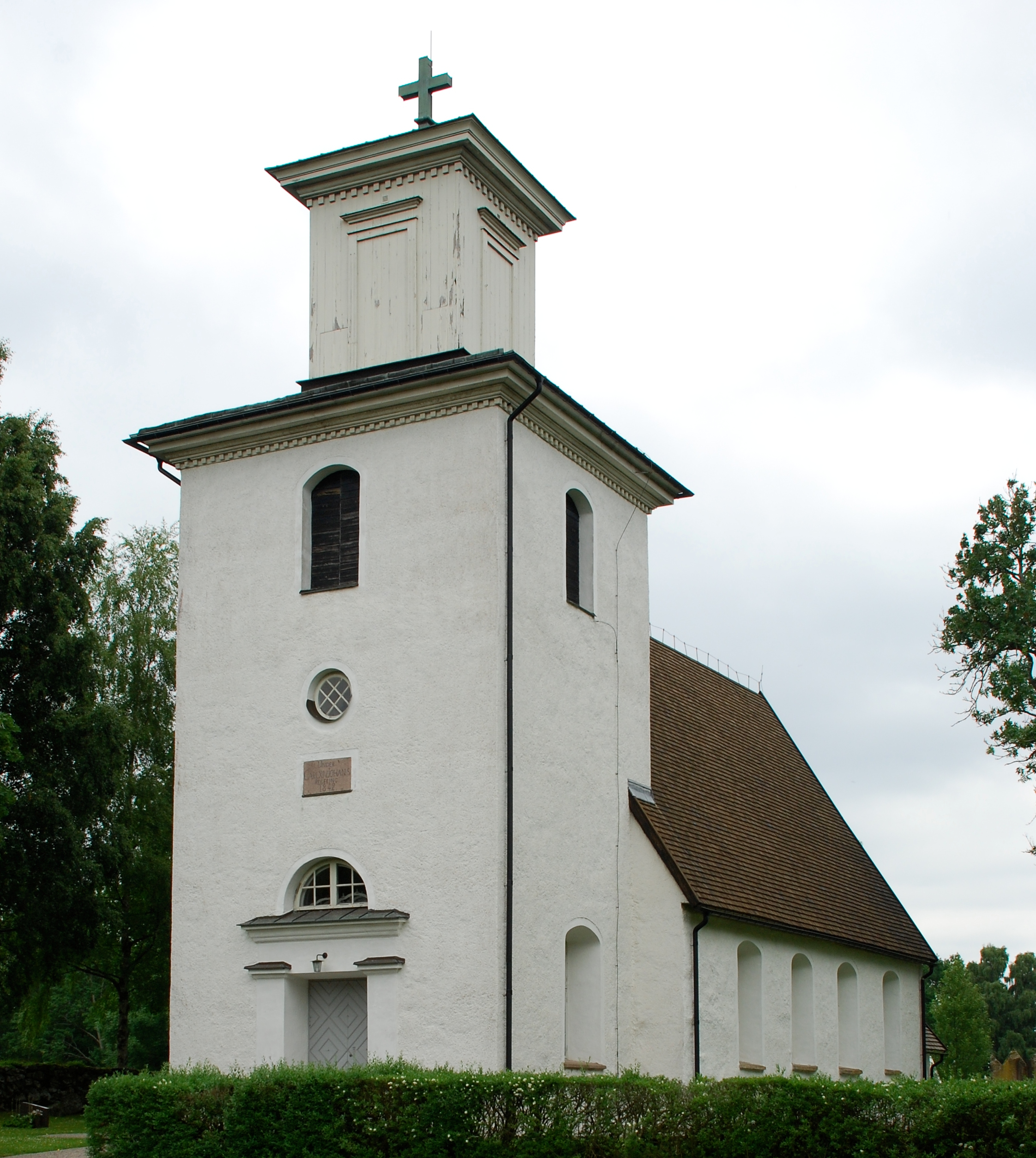 The church of Ormesberga